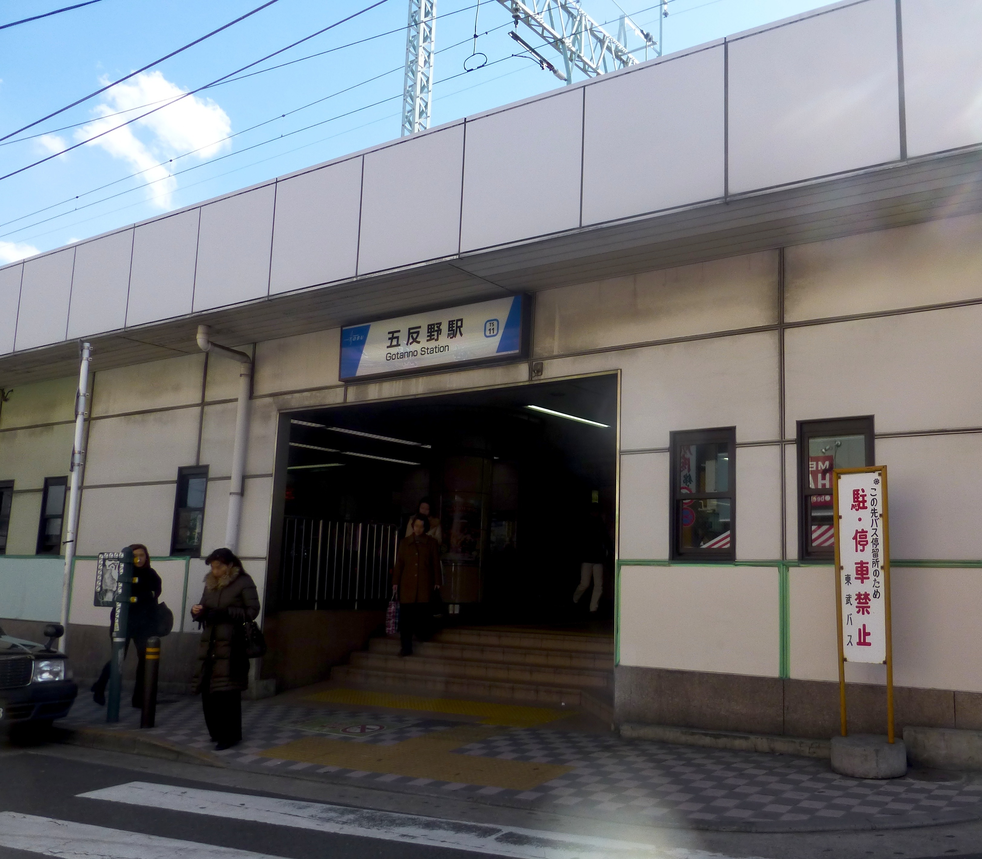 Gotanno Station (五反野駅 Gotanno-eki) is a railway station on the Tobu Skytree Line in Adachi, Tokyo, Japan, operated by the private railway operator Tobu Railway.